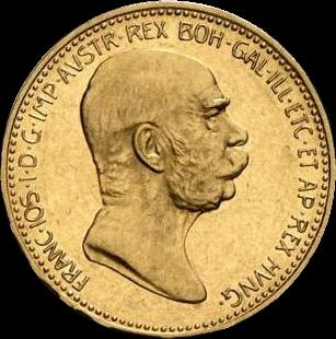 20 coronae, 1909 (Austria) type Marschall - obverse